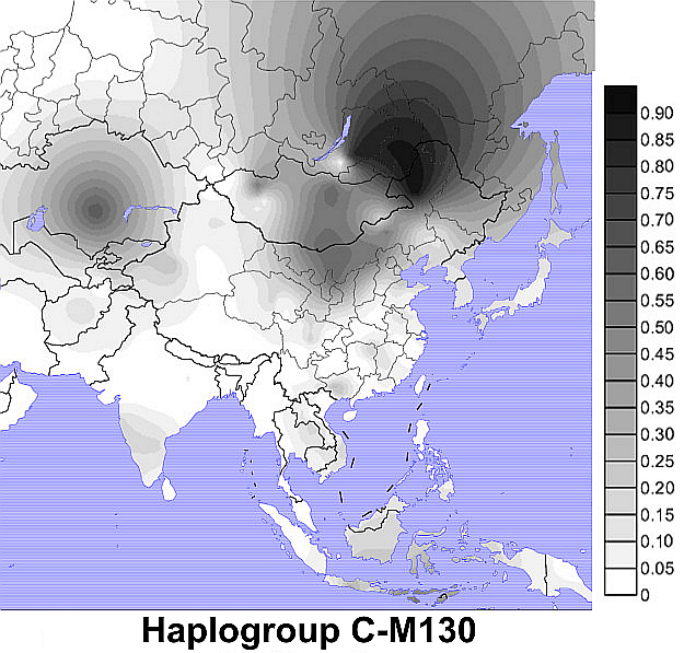 Geographic distributions of Y chromosome haplogroups C-M130 in East Asia. Cropped from File:Geographic distributions of Y chromosome haplogroups C, D, N and O in East Asia.jpg.